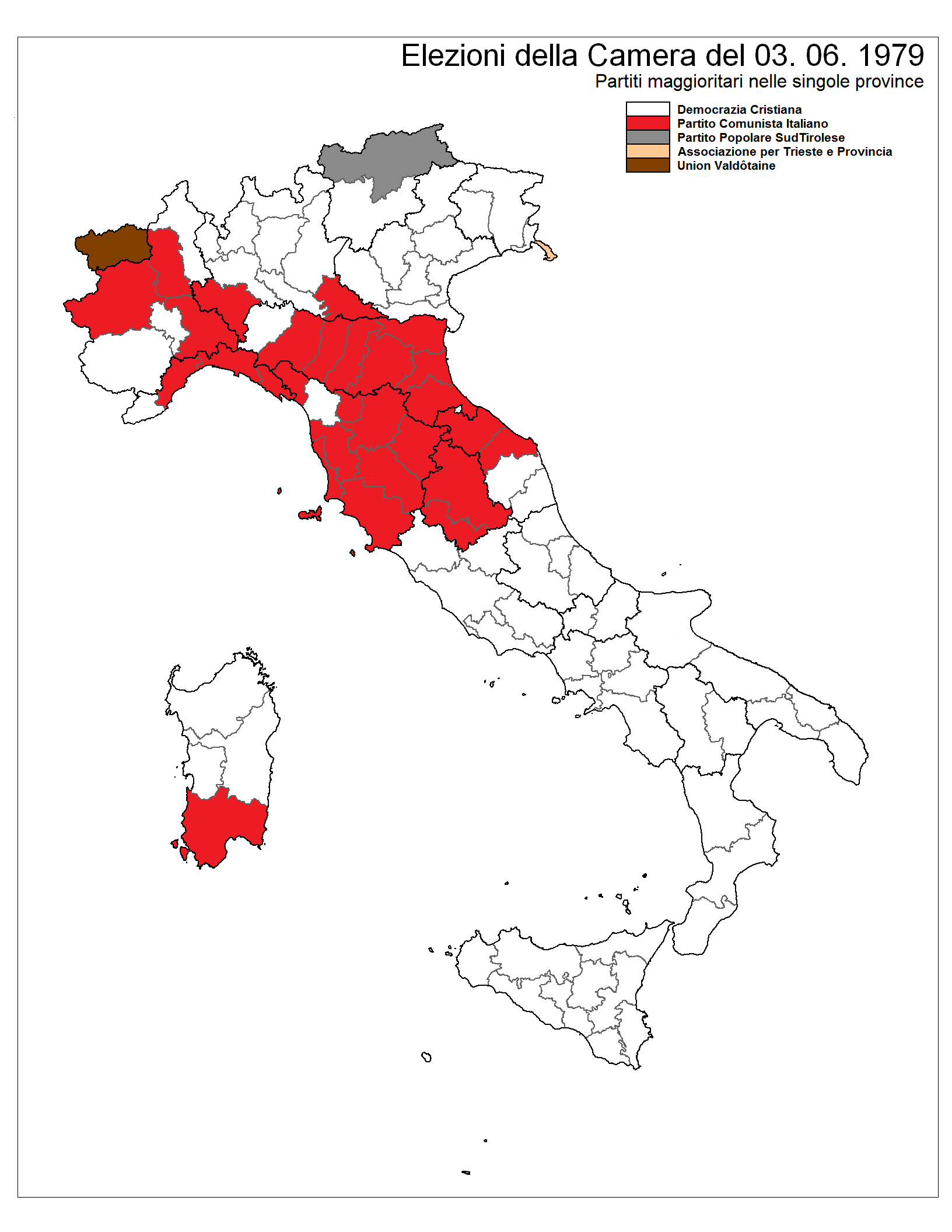 Party plurality in each province, 1979 election.